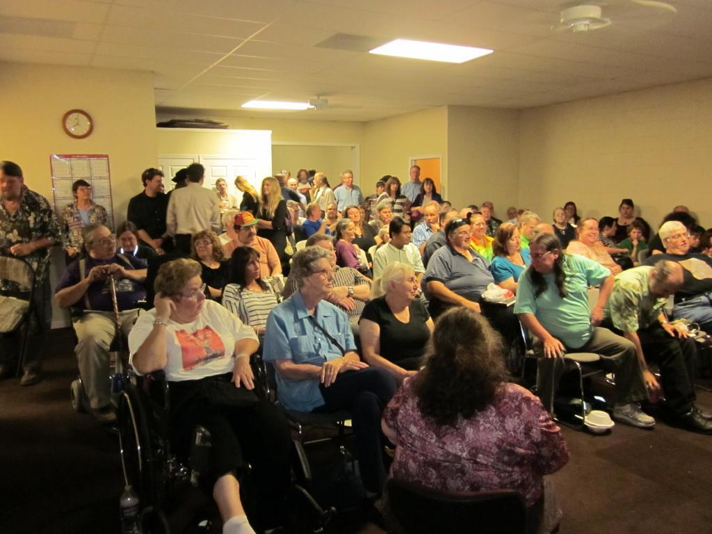 Meeting of the LASFS, 6012 Tyrone Ave., Van Nuys, CA